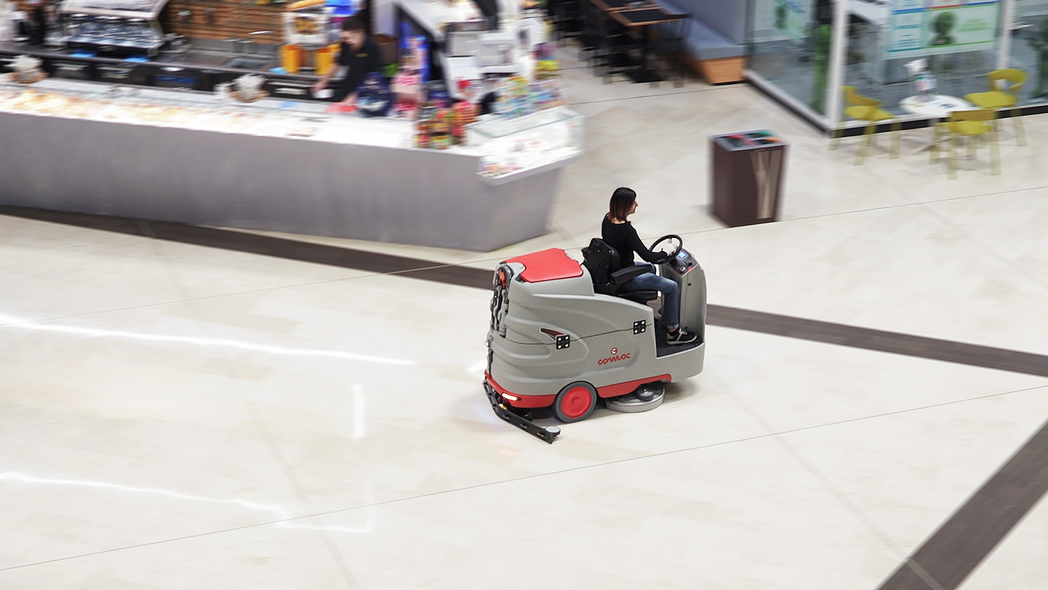 Ride-on floor scrubber working in a shopping mall